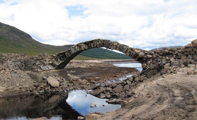 The "Road to the Isles" - Loch Loyne - Large Bridge, from south side, 4 km from Inchlaggan, Highland, Great Britain. The public road network in the West of Scotland was not developed to its current standard until relatively recent times. Many roads used to be improvements on former drovers tracks, and narrow, twisting and steep as they crossed mountain passes. One famous old road was the "Road to the Isles", a segment of which ran from the current-day Tomdoun Sporting Lodge Hotel north-west past Cluanie Lodge to Cluanie Inn. This passed over two rivers which were dammed and flooded to form Lochs Cluanie and Loyne in around 1947. A new road, the current A87, was constructed around the edge. The old tracks to Loch Loyne are now gated and in private ownership but accessible by walkers and mountain bikers. Where the "Road to the Isles" crossed what is now Loch Loyne, there were two bridges and a small wooded island. The road, and the small and large bridges still exist but are usually wholly or almost wholly submerged below the waterline for much of the year and unreachable and unpassable. However, in September each year, Scottish Hydro Power reduce the level of the water in the Lochs and in early September 2008 it was at exceptionally low levels. The old road and bridges were reachable and indeed passable by walkers or mountain bikers. It should be noted the larger bridge (shown here) is, from a formal Health and Safety viewpoint, far too dangerous to walk across but many do at their own risk. The story of the "Road to the Isles" or "The Roof of the Highlands" was covered by Nicholas Crane ("Mapman") in one of his 2007 BBC 2 TV series "Great British Journeys" about the writings of early travellers, in this case H.V. Morton's tours of Scotland in 1929-33 in a Bullnose Morris car. Next: [image no longer available] Previous: NH1504 : The "Road to the Isles" - Loch Loyne